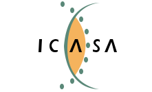 The corporate logo of the Independent Communications Authority of South Africa